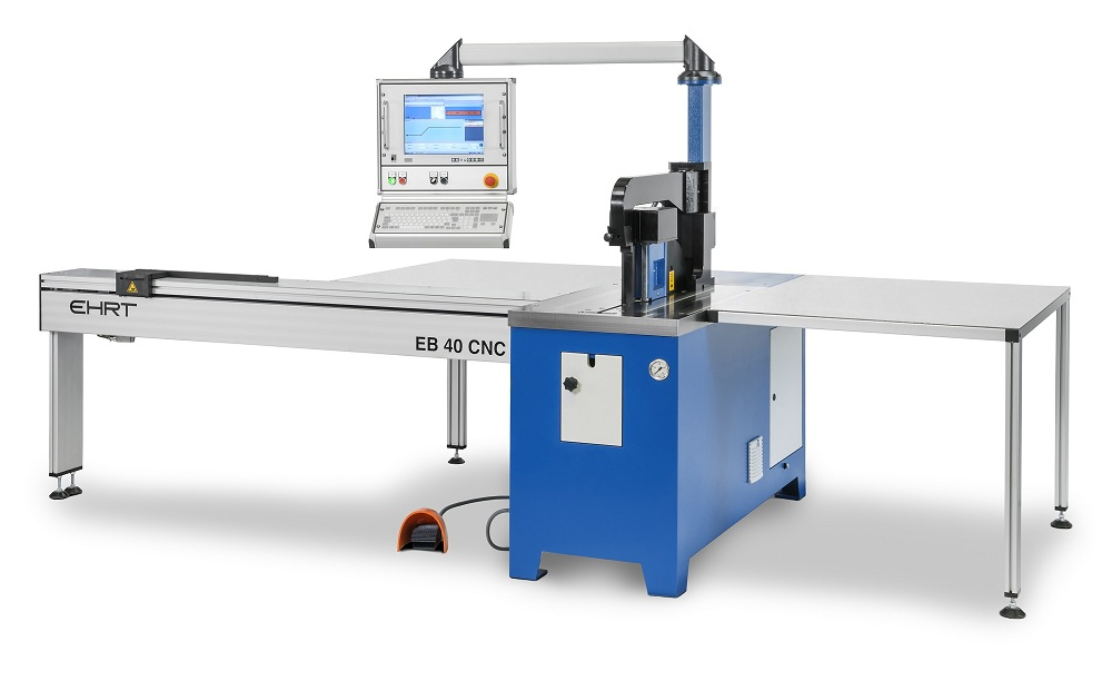 CNC bending machine (EHRT EB40CNC); The basic machine can be equipped with a variety of tools.